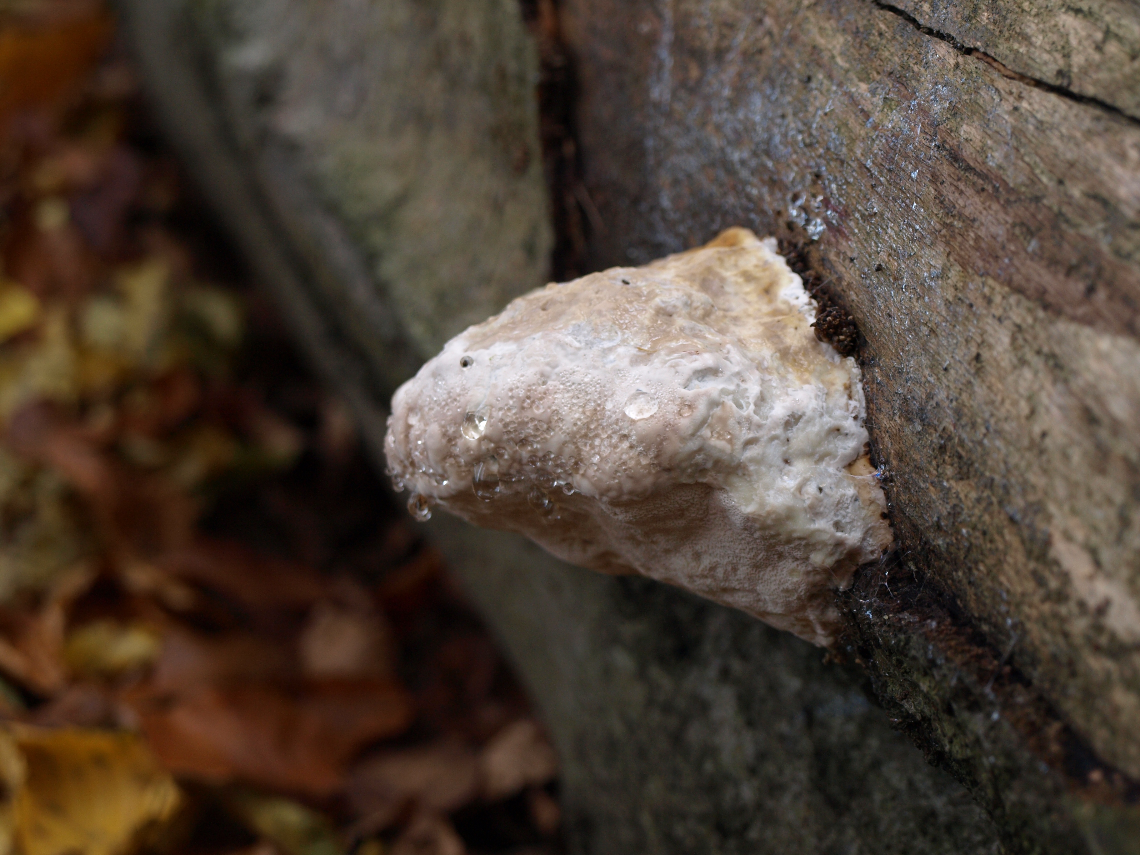 National nature reserve Ve Studeném in Benešov District, Czech Republic